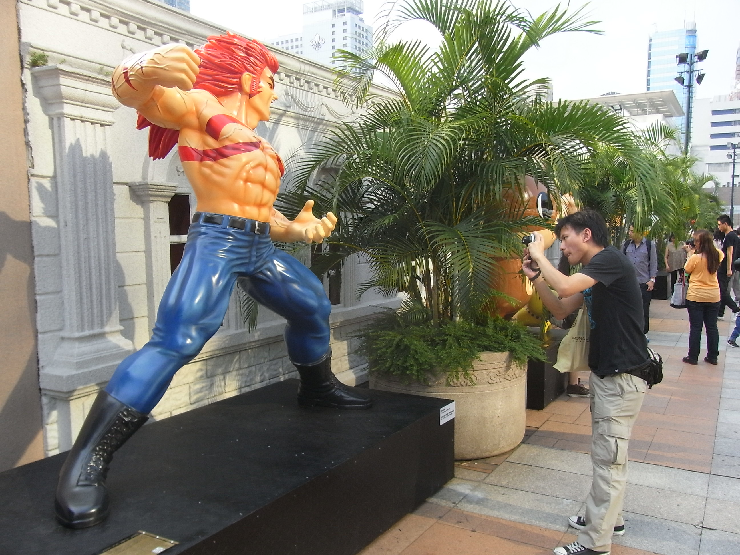 香港漫畫星光大道, Hong Kong Avenue of Comic Stars, Kowloon Park, Nathan Road, Tsim Sha Tsui, Hong Kong